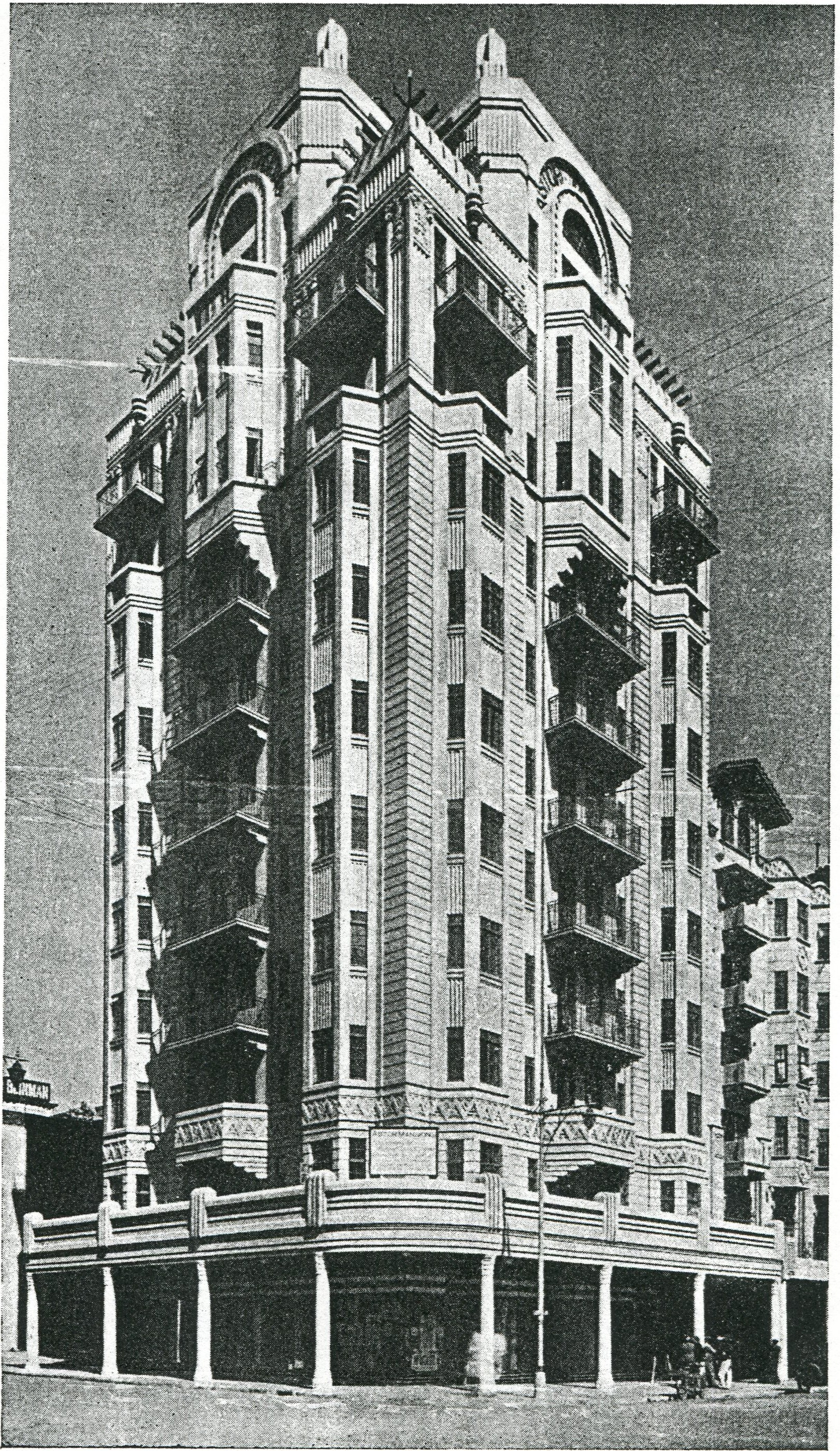 The Astor Mansions in cnr Jeppe and Von brandis street Johannesburg. This is part of the Joburgpedia project from the the Johannesburg Heritage foundation given to Wikimedia and its other projects.